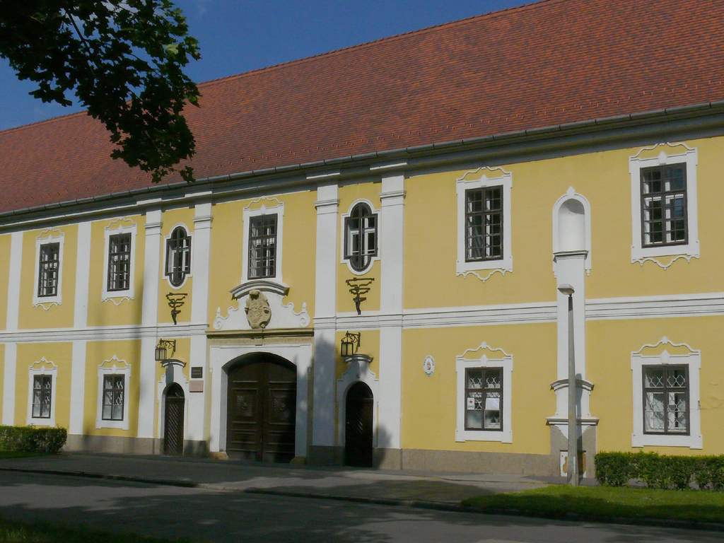 Baroque building of Károly kisfaludy High-School, Mohács, hungary